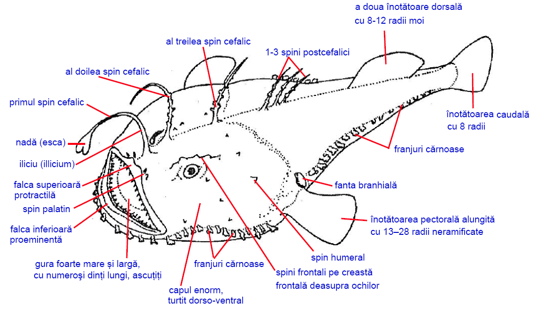 Lophiidae